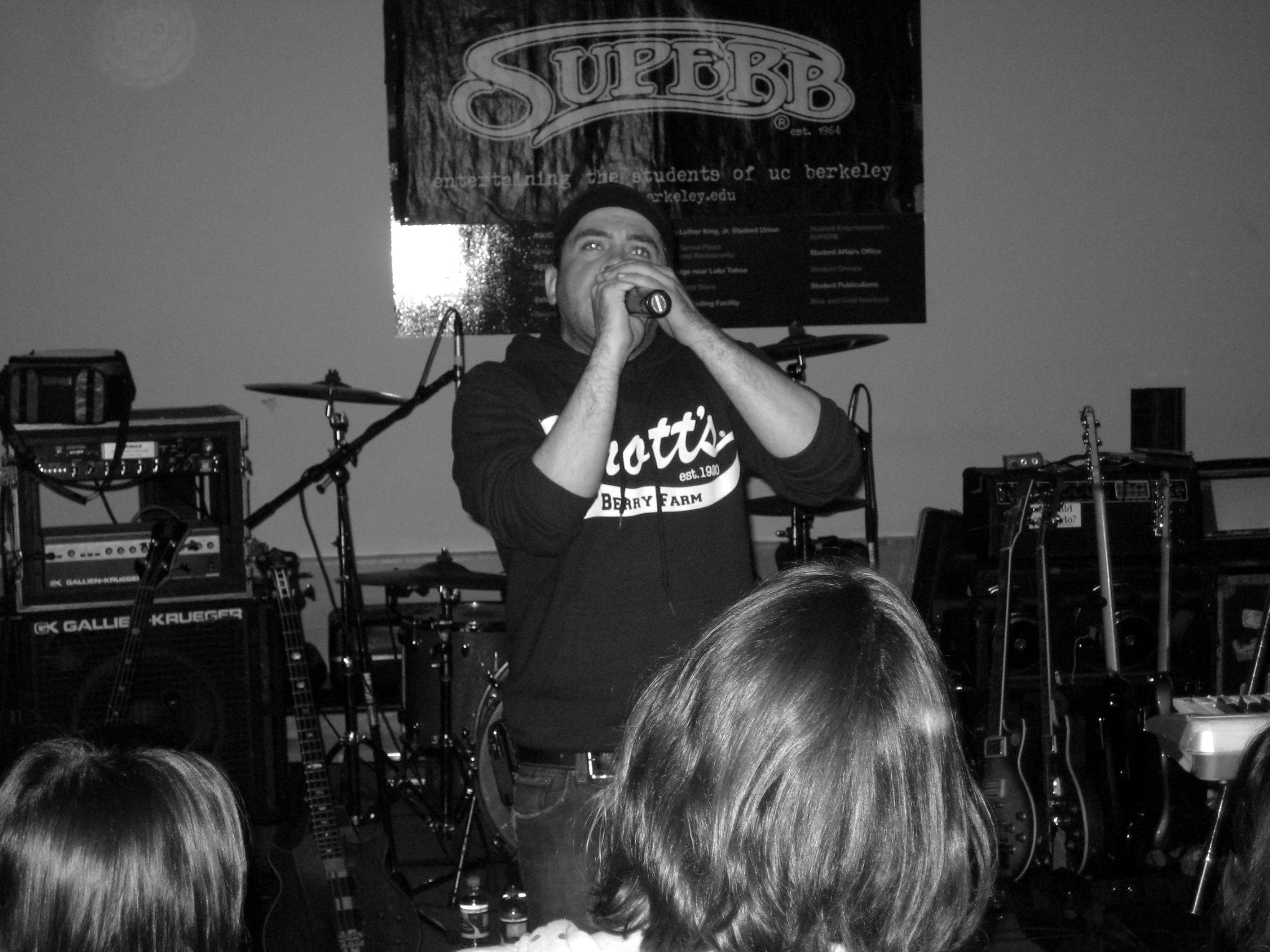 2/18/08 Bear's Lair in Berkeley, CA.